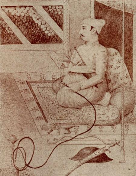 Nawab Mir Qasim ( at Victoria Memorial Hall and Museum Kolkata, India).